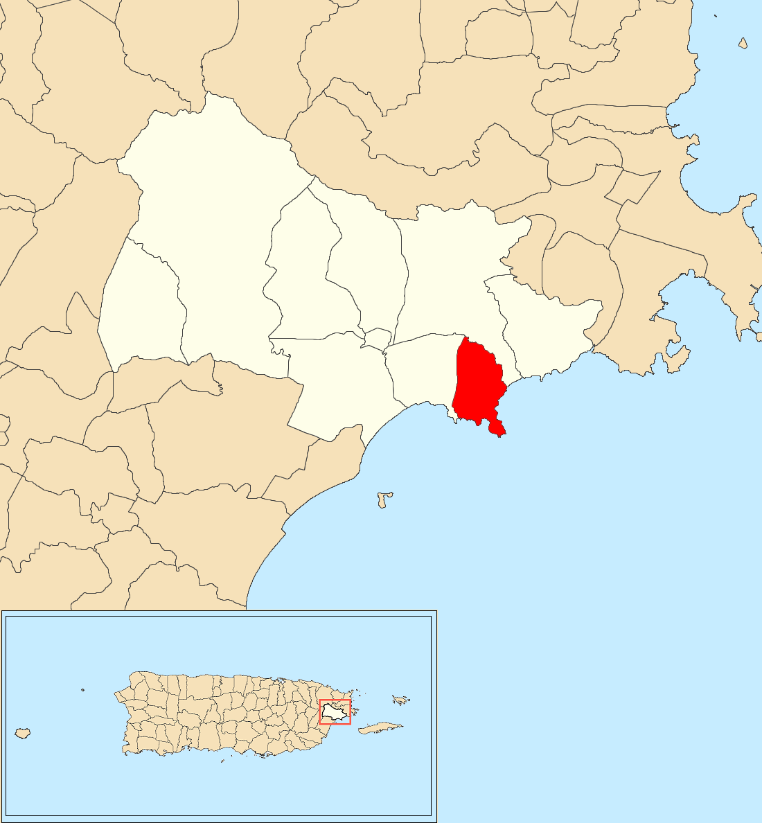 Santiago y Lima, Naguabo, Puerto Rico locator map